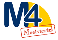 Mostviertelfernsehen